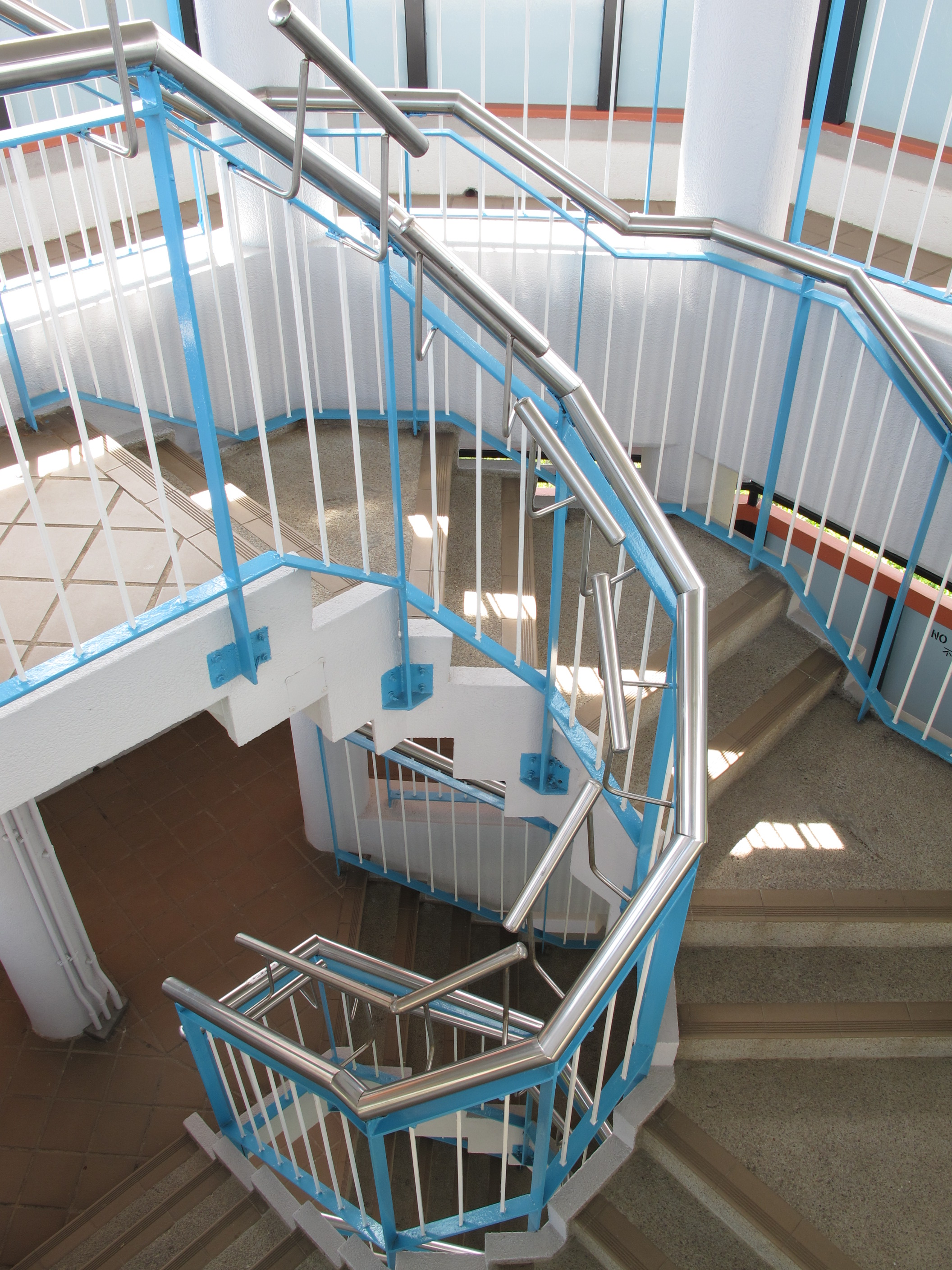 Aviary Pagoda Stairs in Yuen Long Park